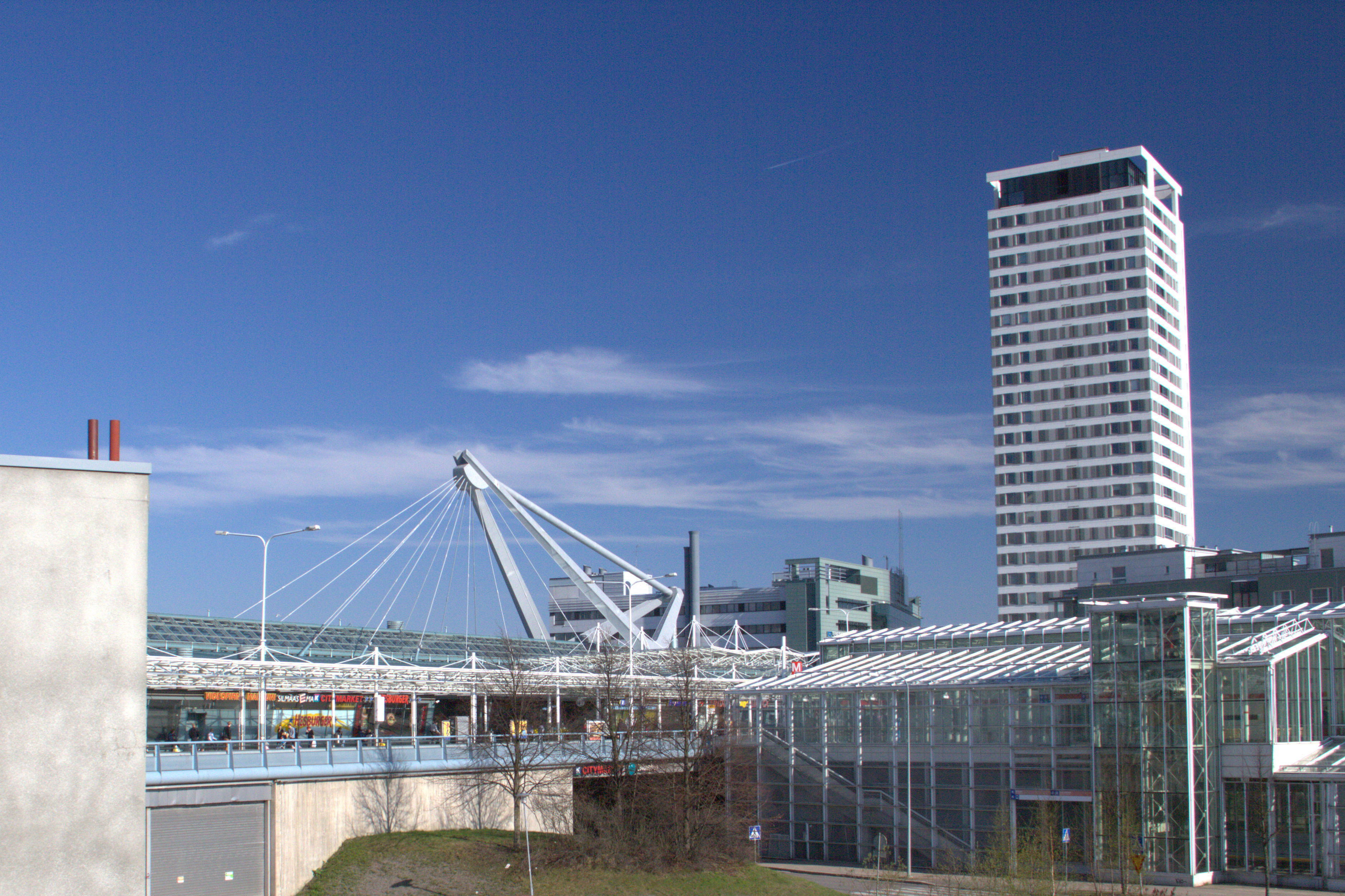 Vuosaari metro station, shopping mall Columbus and Cirrus